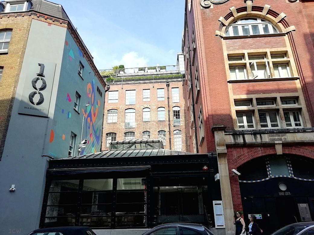 The former site of the original Marquee Club, Soho, London. Ground level (right): 90 Wardour Street - Marquee entrance, the Marquee shop window, and the staircase to the upper floors of Charisma Records and the Marquee offices all housed at No. 90 Wardour Street. Continuing inside through the entrance door was a long hall (that contained a cloakroom and the VIP bar room) and also door to the cellar below, and another door to the backstage dressing-room. At the end of the hall were double-doors with glass portholes that led into the actual Marquee Club area. The Marquee Club area was housed where the 100 Wardour Street club is now housed. The club contained a DJ booth, stage, club floor where punters stood and a back area that had another bar (the back bar). Another corridor led off from the back bar which housed the toilets and the rear entrance doors into the back Mews.